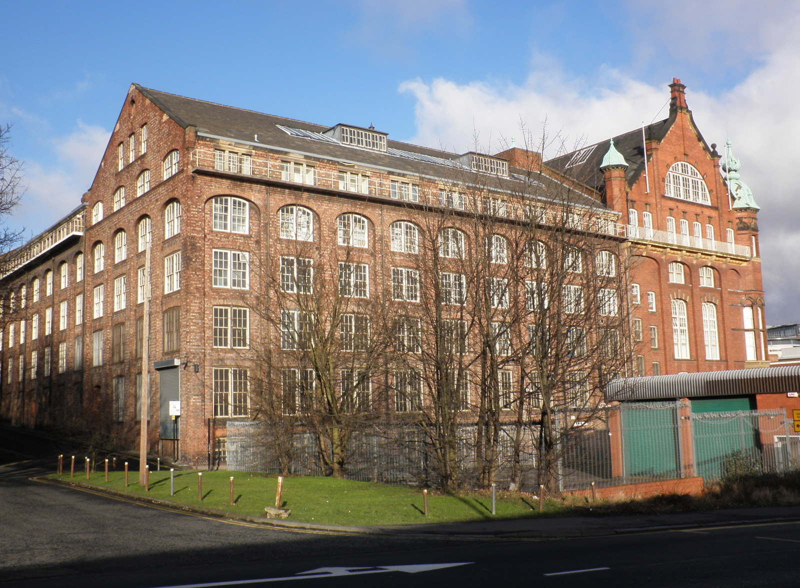 Discovery Museum, Newcastle